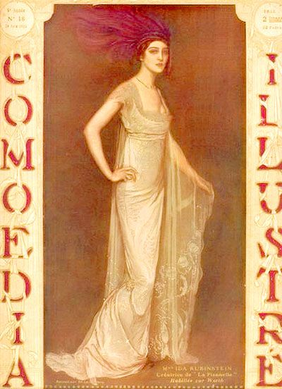 Ida Lvovna Rubinstein (5 October 1885 - 20 September 1960), ballet dancer